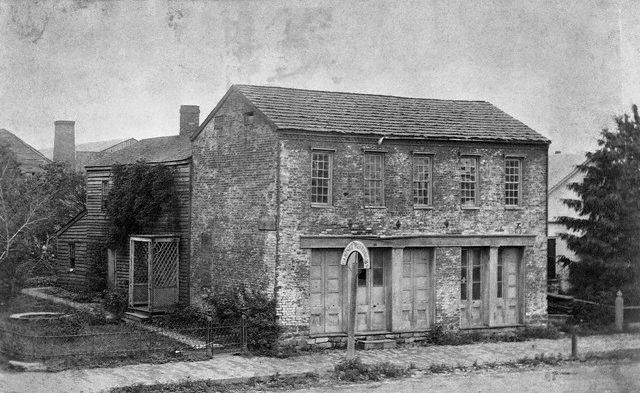 Rutherford Hayes's boyhood home